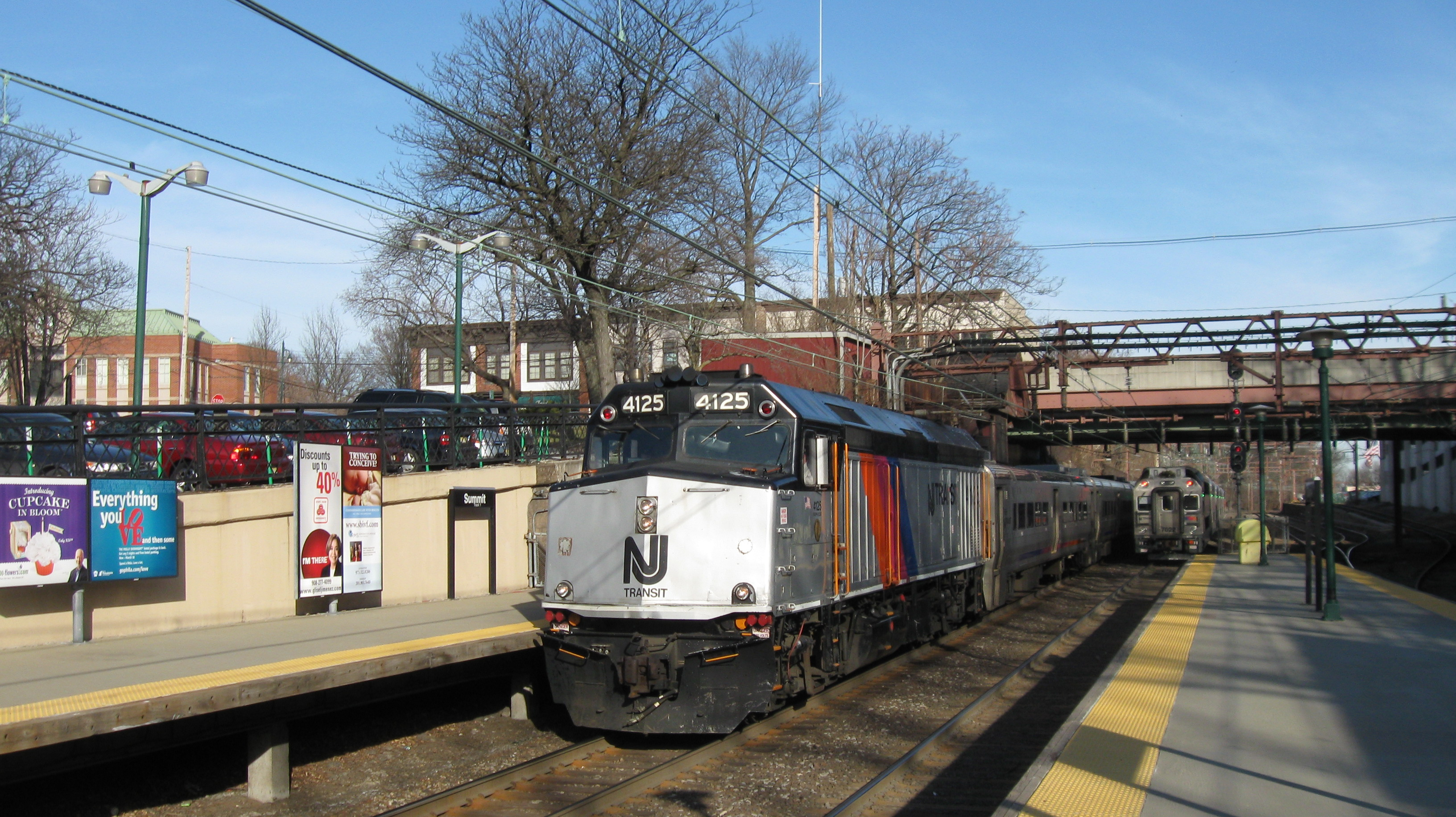 New Jersey Transit F40PH-2CAT in Summit, NJ